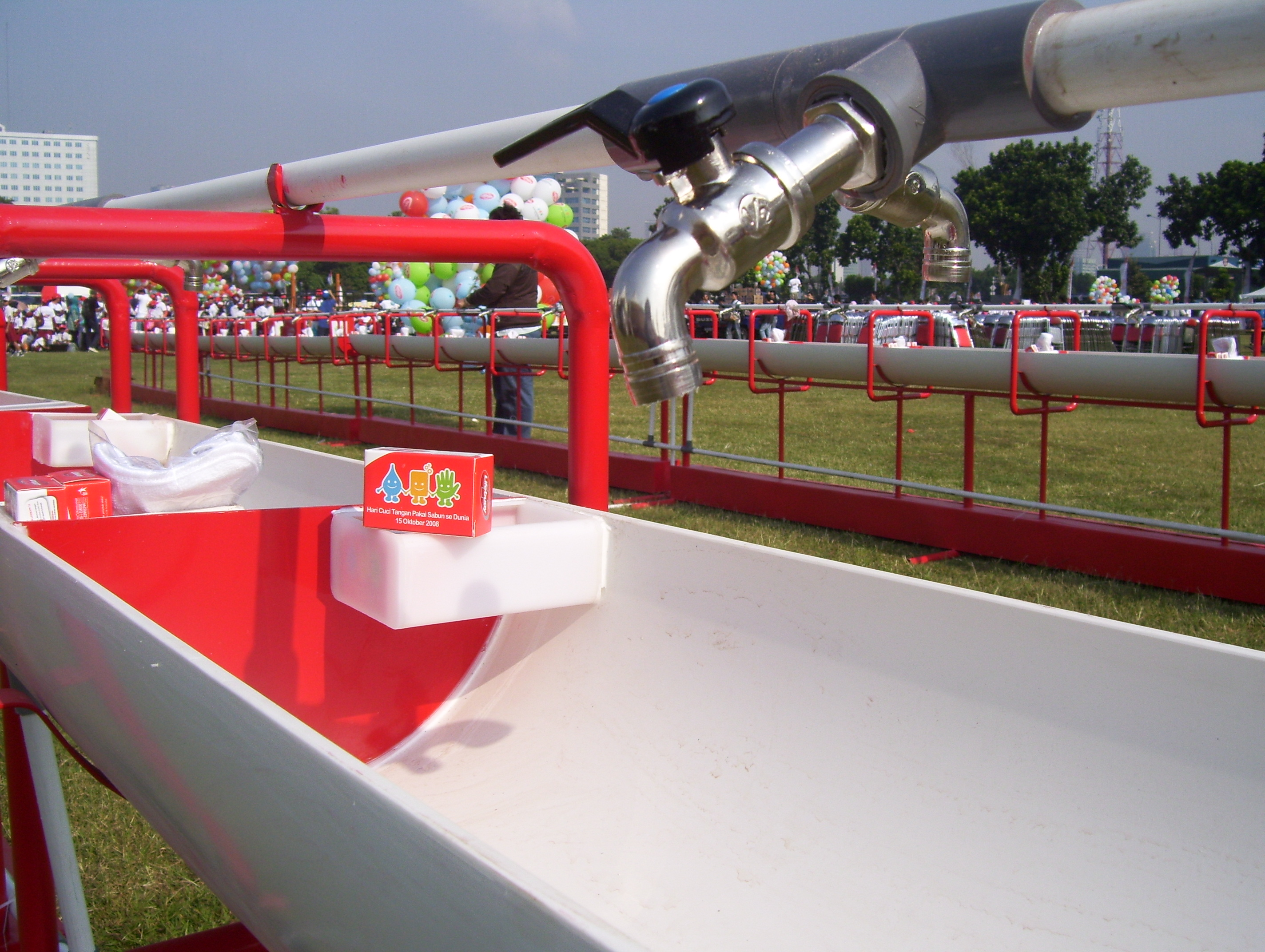 Global Handwashing Day Indonesia